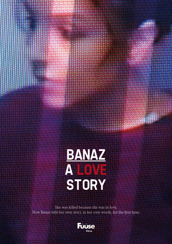 official film poster